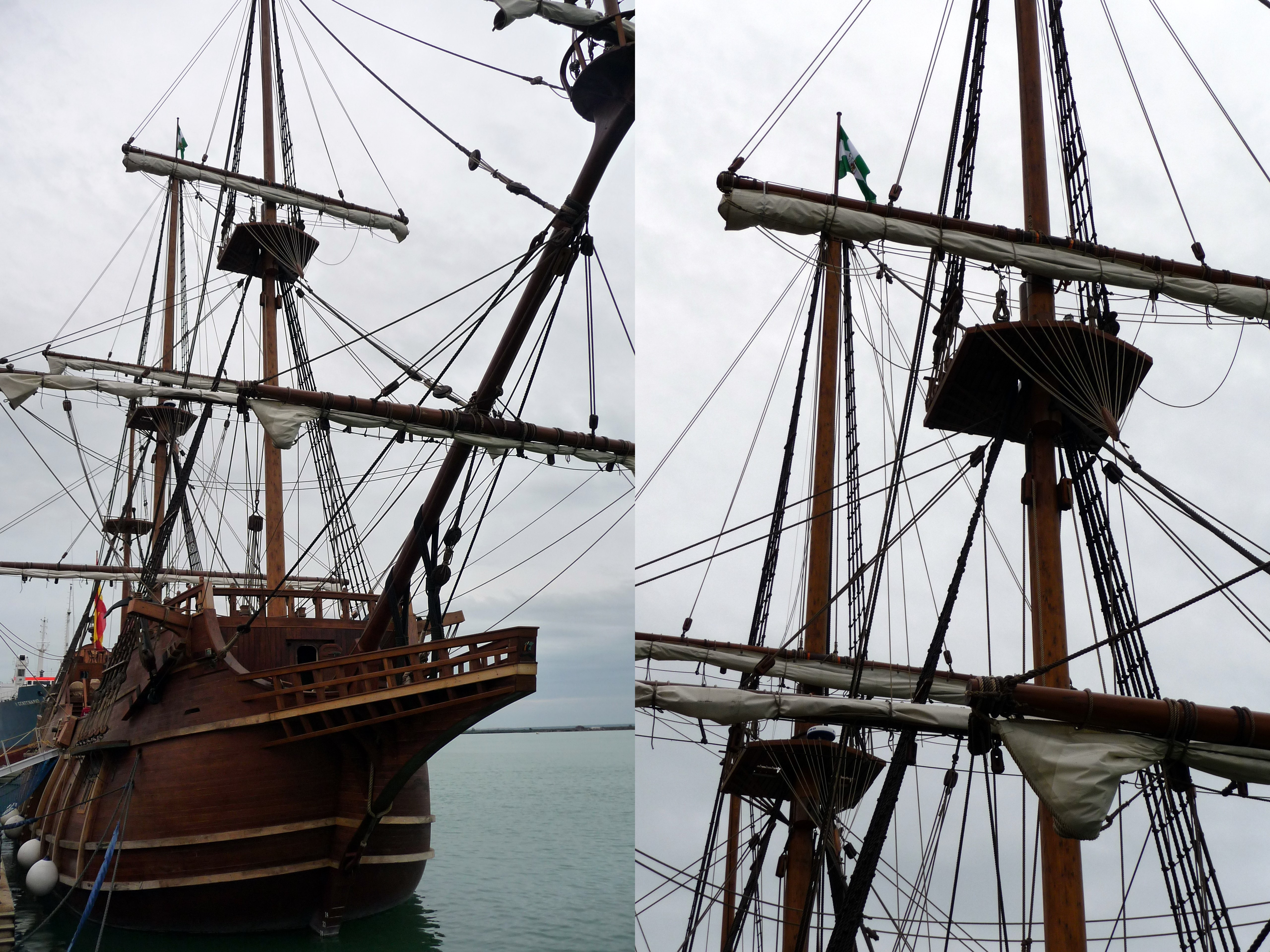 Galeón Andalucía.